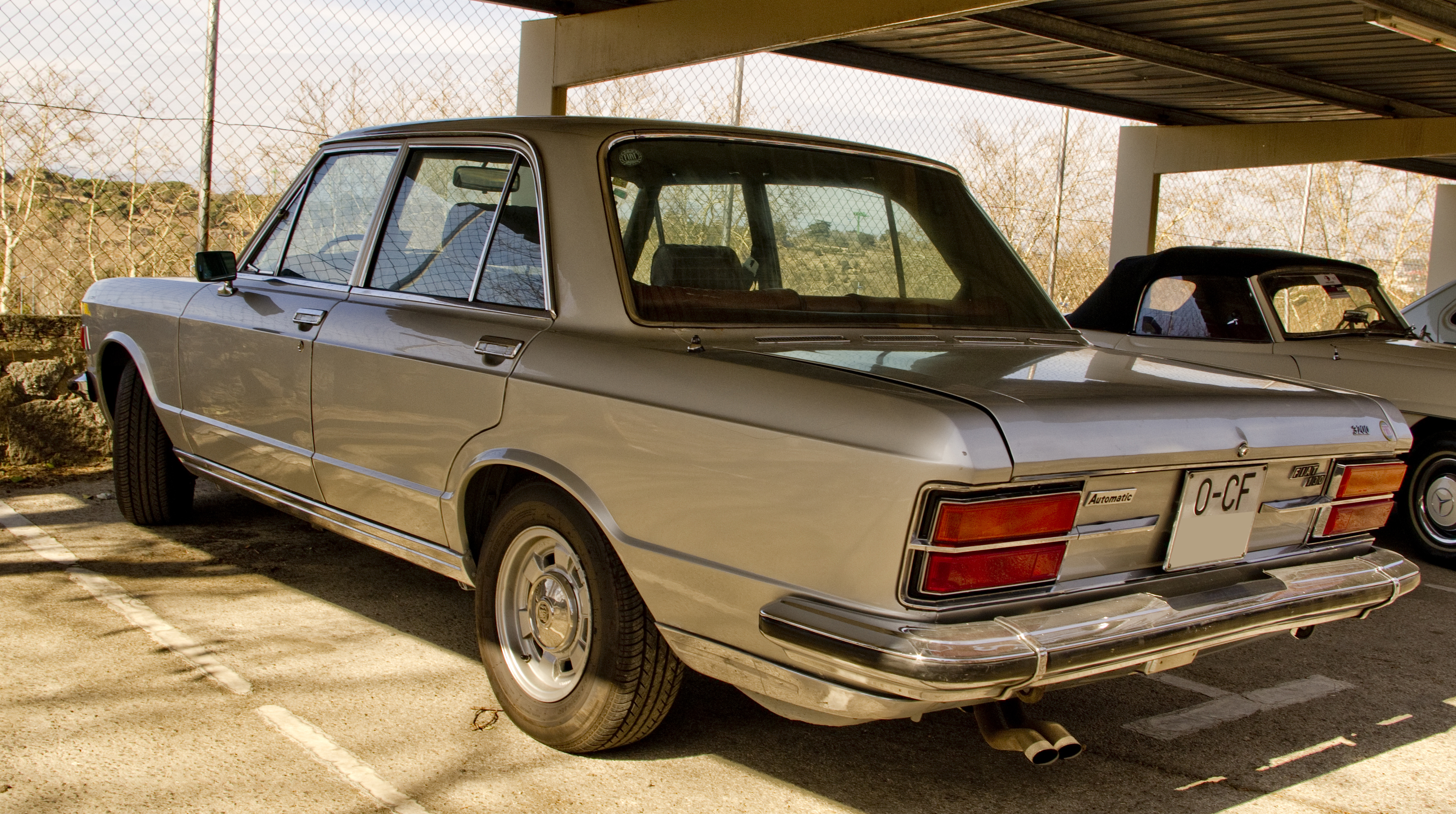 At last I get to see a Fiat 130. Had been wanting to see one for such a long time, this one had 1999 plates from Oviedo (Asturias). Imported that year we can assume.